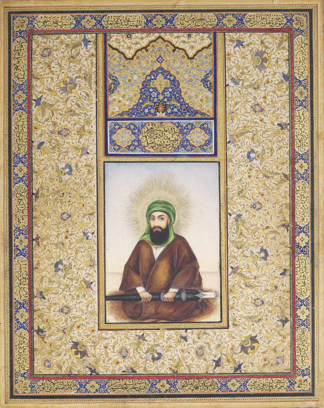 The Imam 'ali Qajar Iran, 19th Century